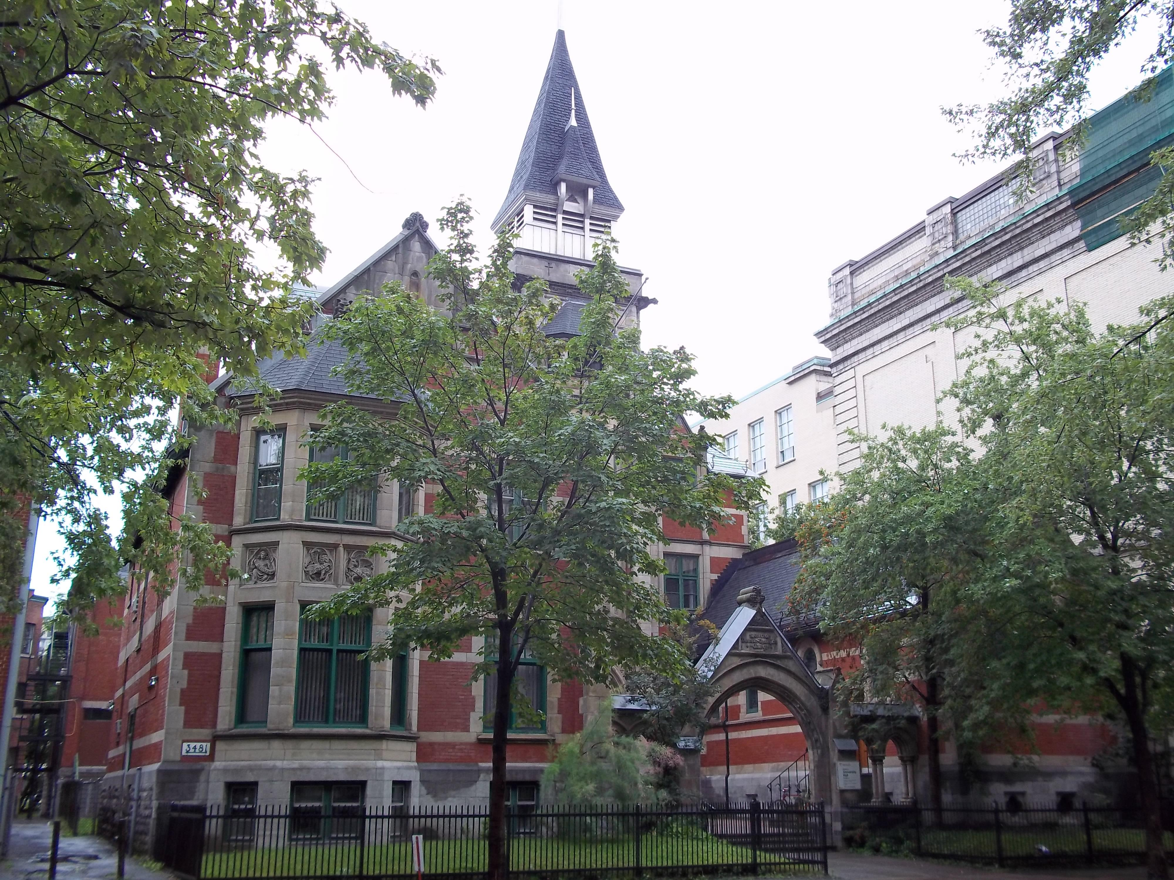 Montreal Diocesan Theological College, 3473 University Street, Montreal, Quebec, Canada